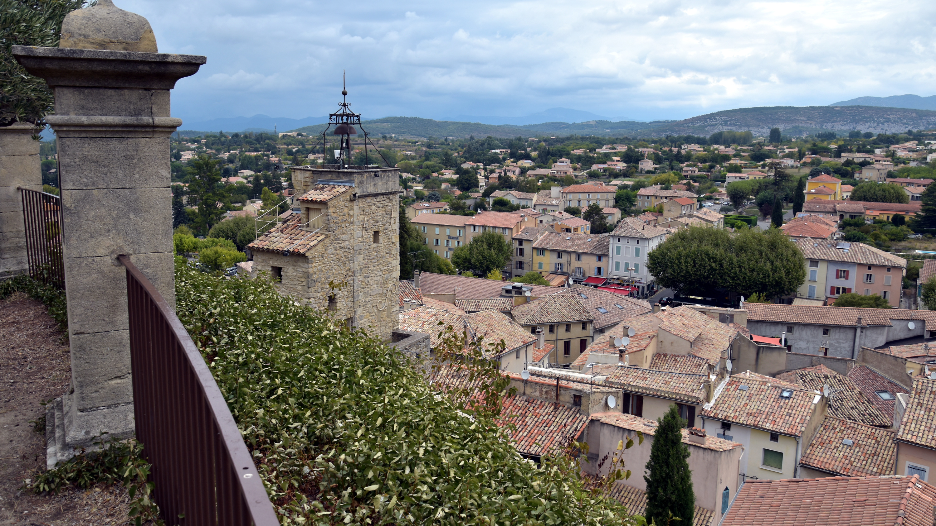 Malaucène